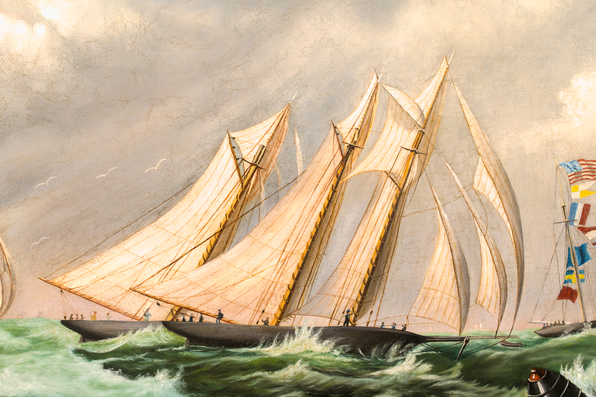 First International Yacht Race off Children's Island (Marblehead, Massachusetts), by M. H. Howes. Children's Island SKA Cats Island. First International Yacht Race at Marblehead.